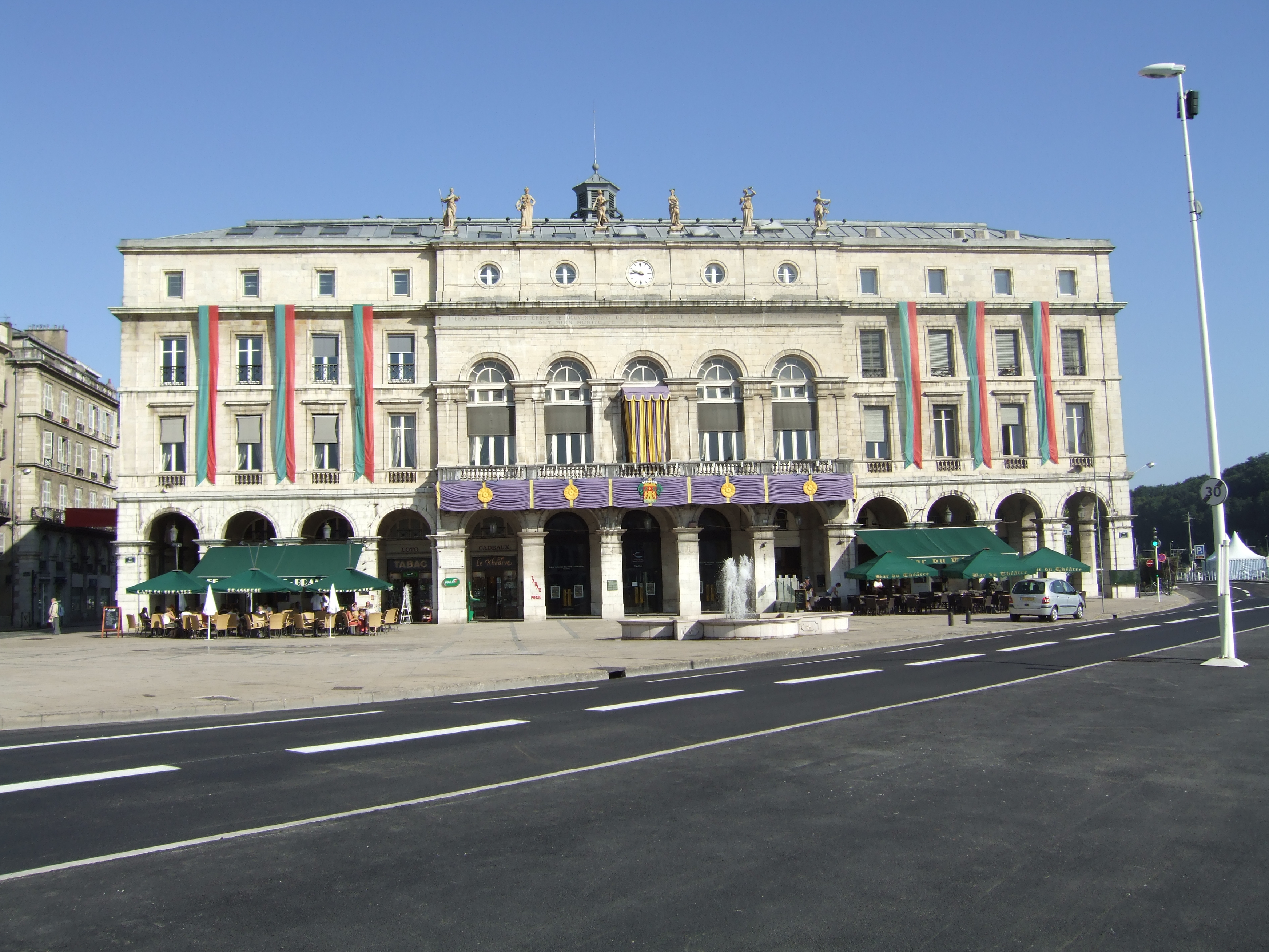 Townhall of Bayonne (France)